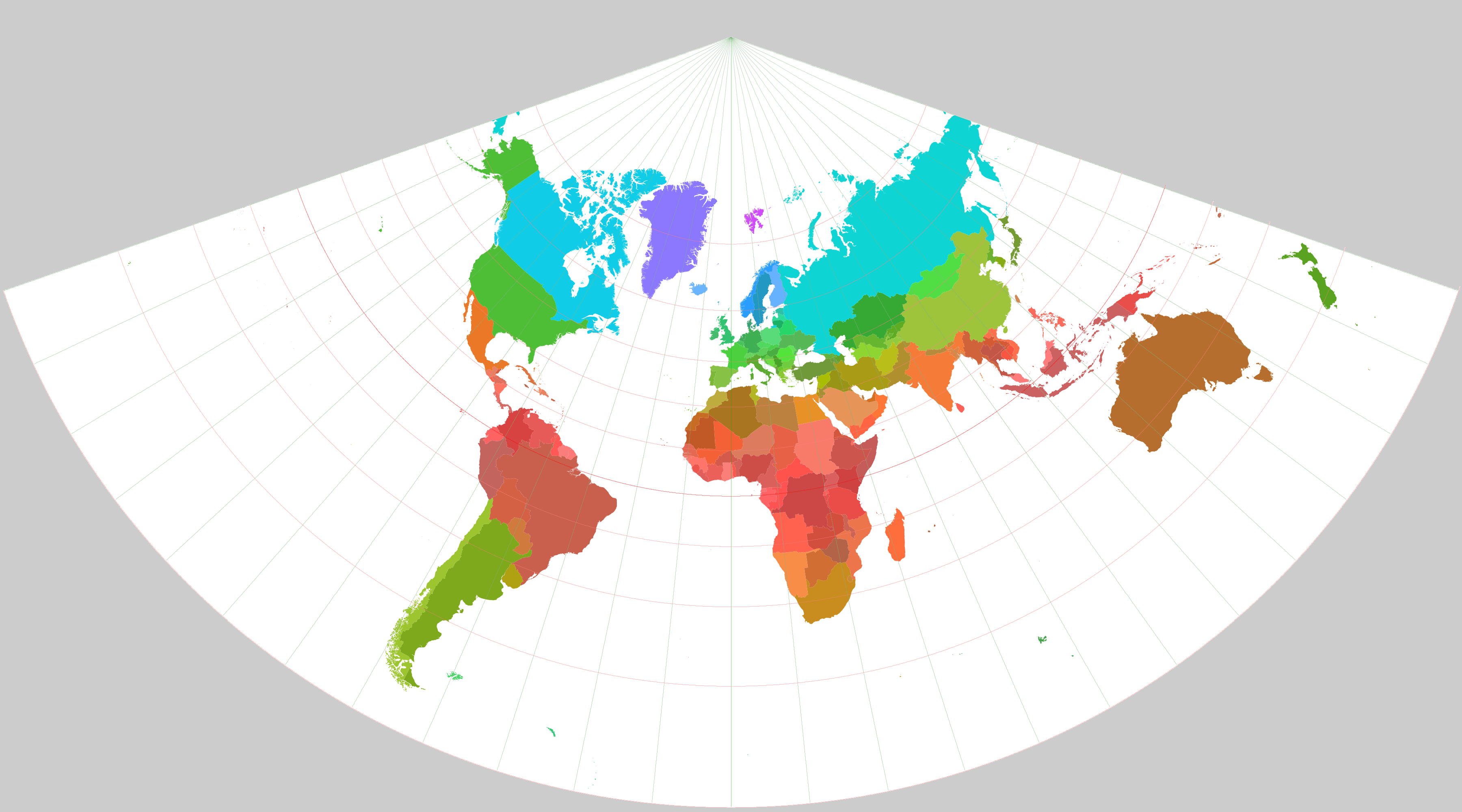 Political map of the World (truncated at 60 degrees south) in Lambert's Lambert conformal conic projection (distance-true parallels: 0 and 45 degrees north), with colours varying with latitude.